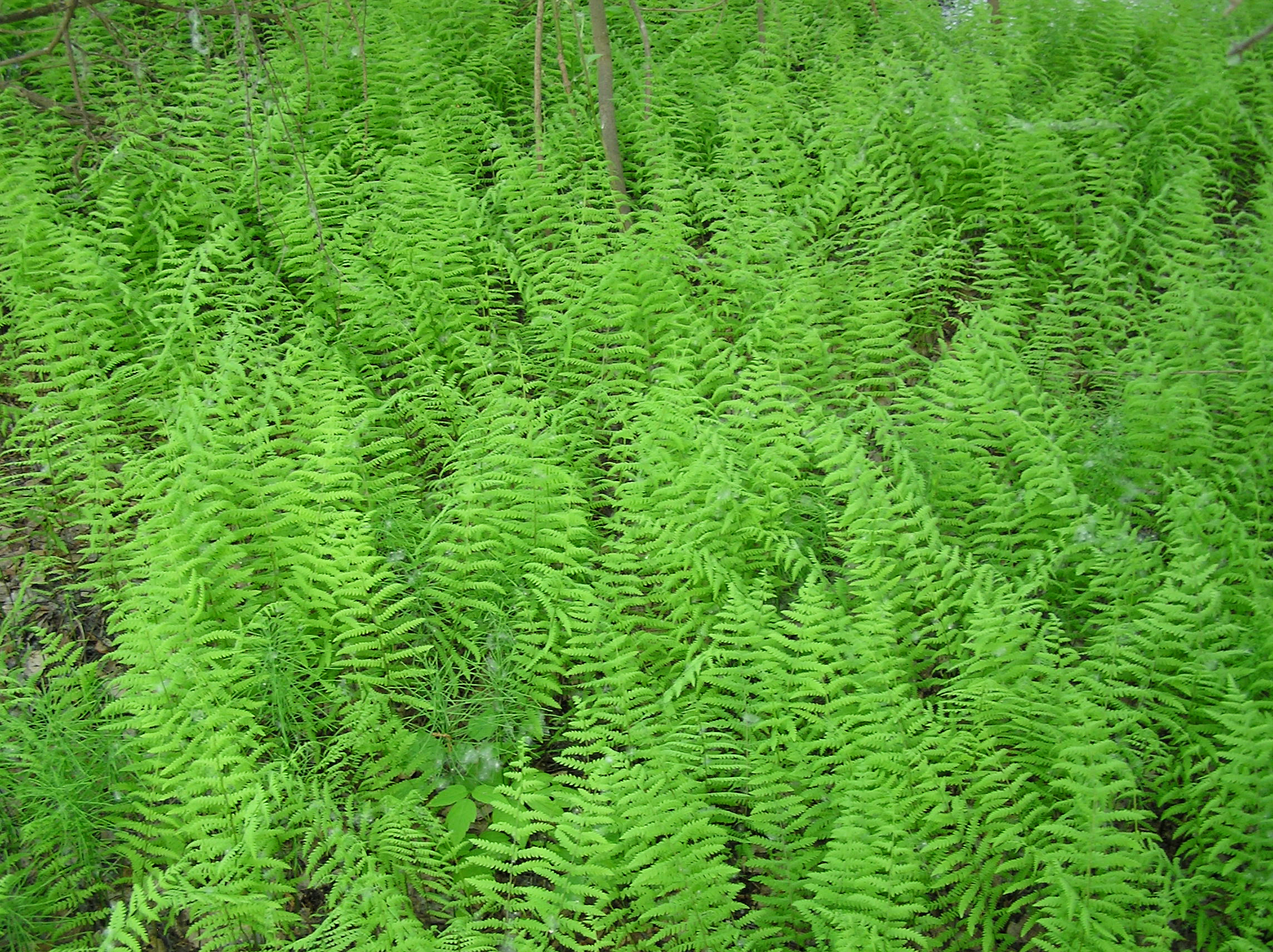 Marsh Fern (Thelypteris palustris Schott). Habitat: edges of an oxbow lake near Volgograd Reservoir (Volga). Engelssky District, Saratov Oblast, Russia.